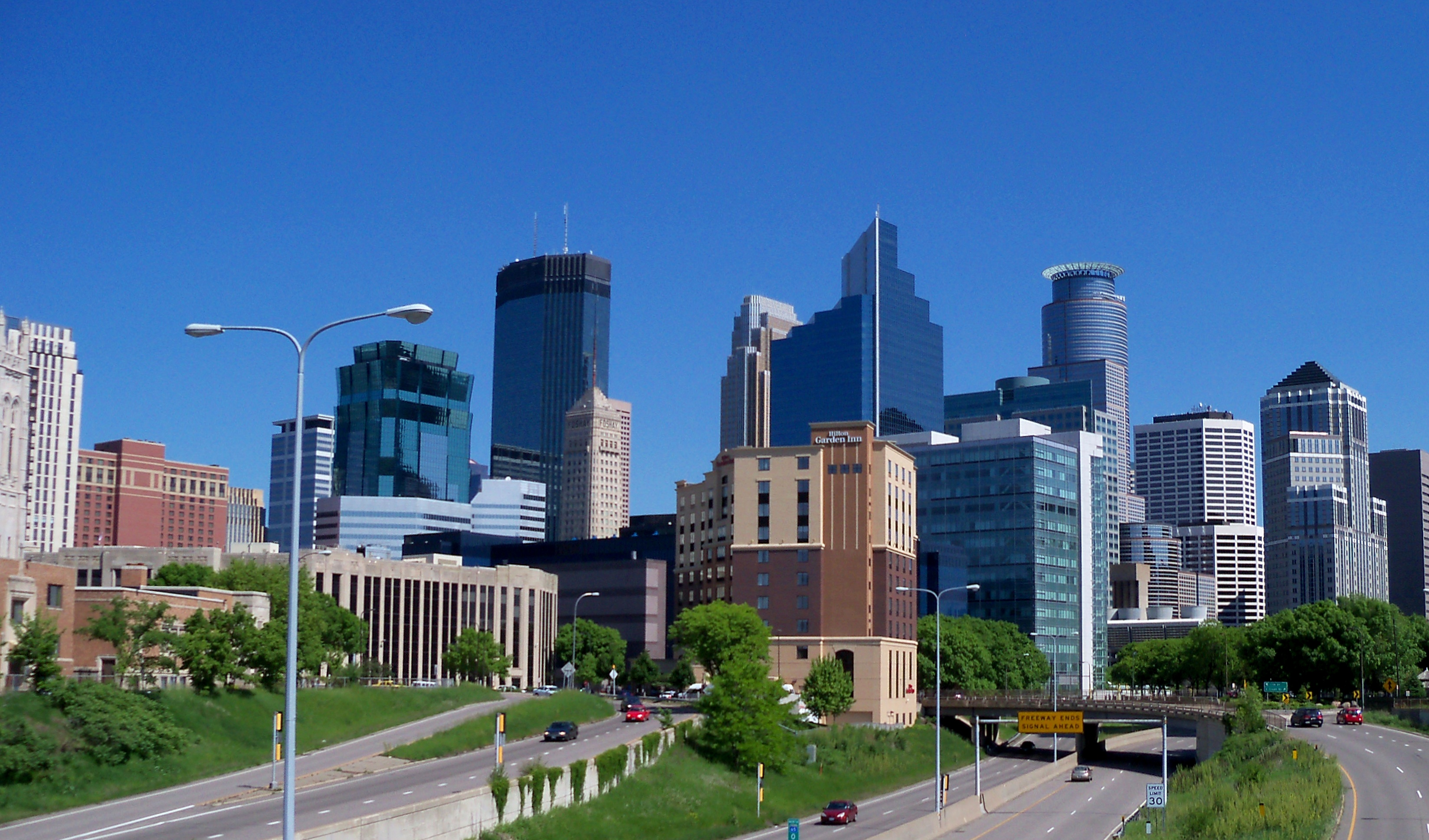 Skyline of Minneapolis, Minnesota, USA. Taken looking Northwest.